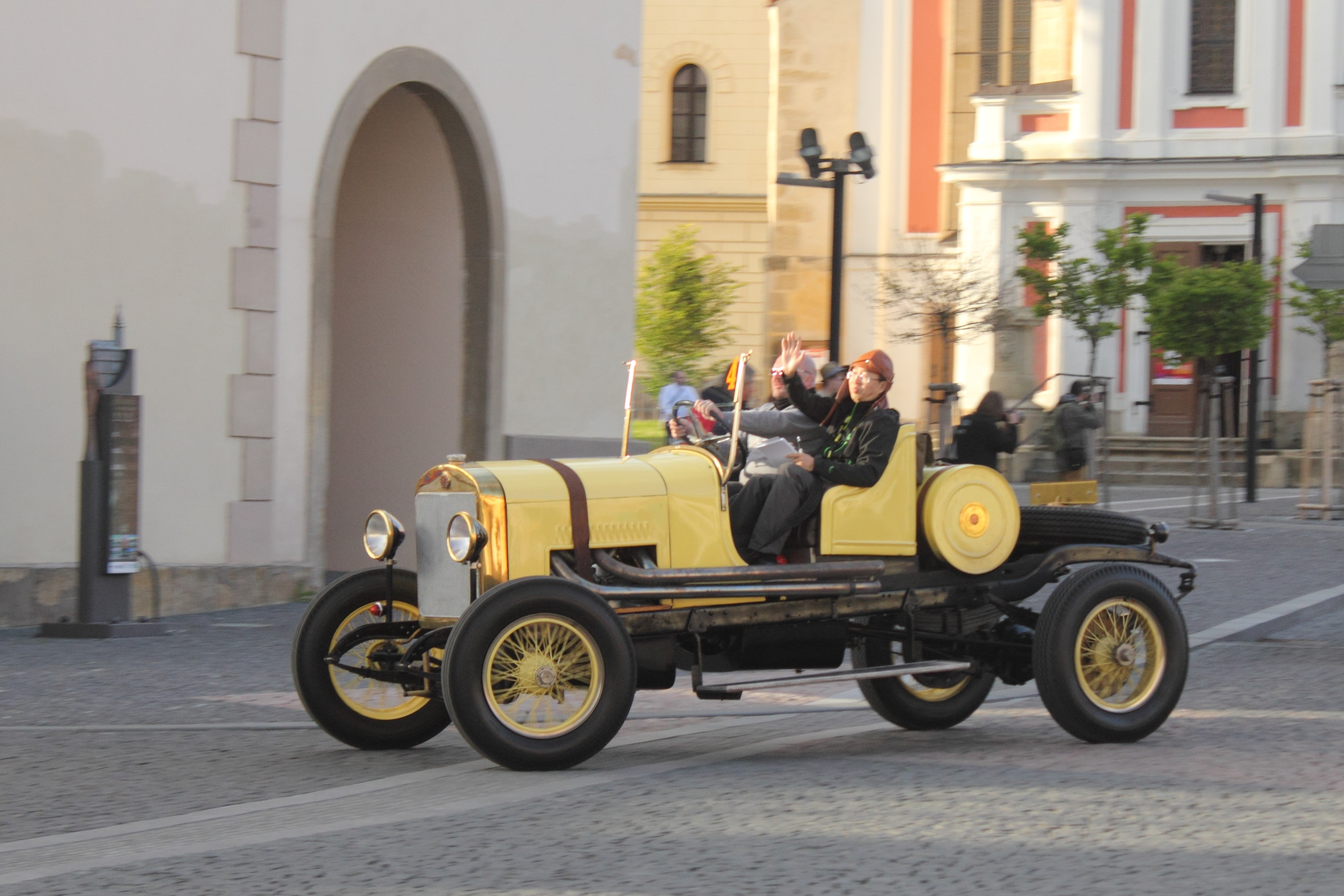 L&K 300 ‚Makina’ (1920), 2013 Oldtimer Bohemia Rally, Mladá Boleslav